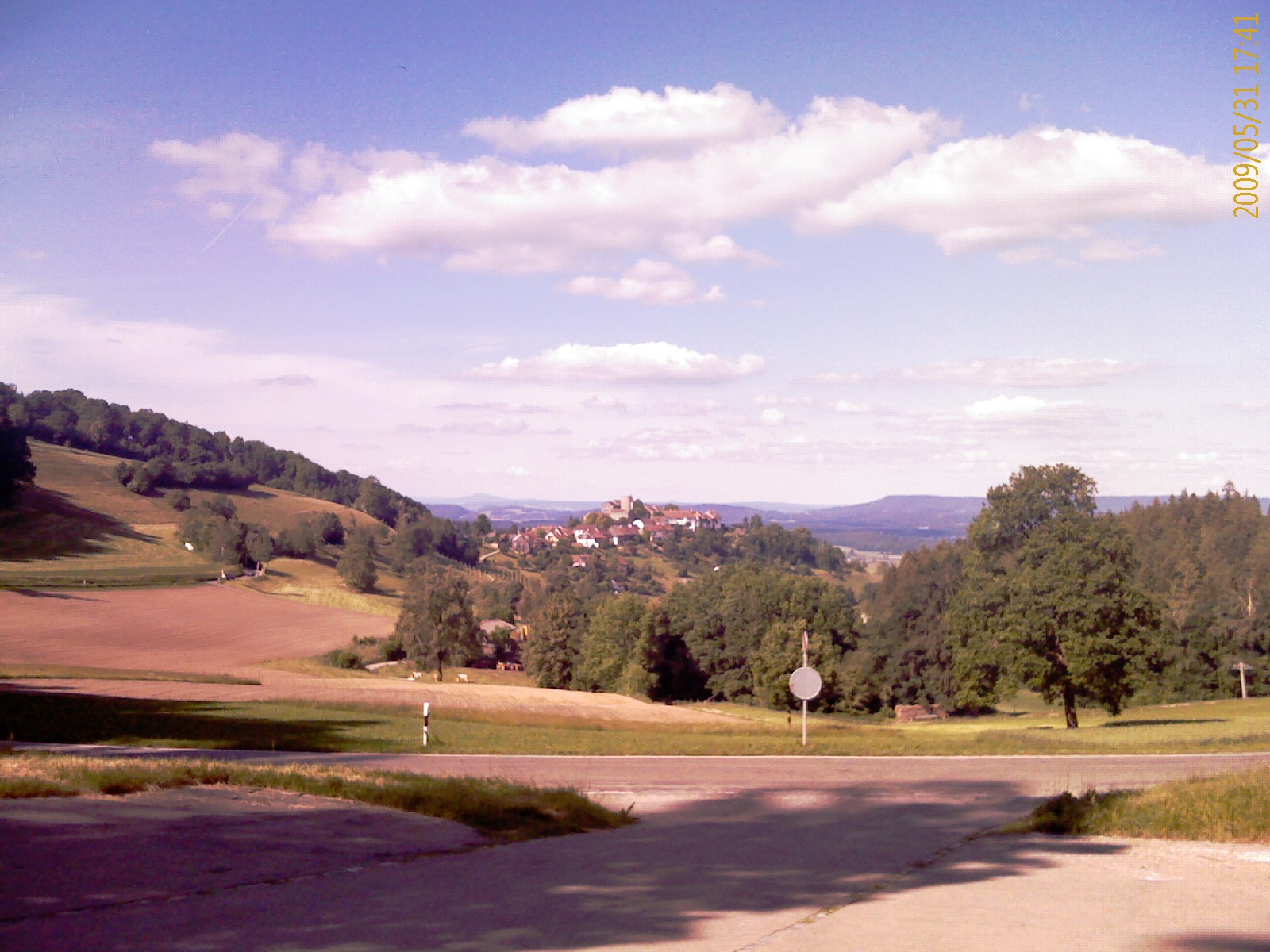 Panoramic view of Regensberg from Lägern, canton of Zürich, SwitzerlandEsperanto: Panorama vido de Regensberg ek de Lägern, Kantono Zuriko, Svislando